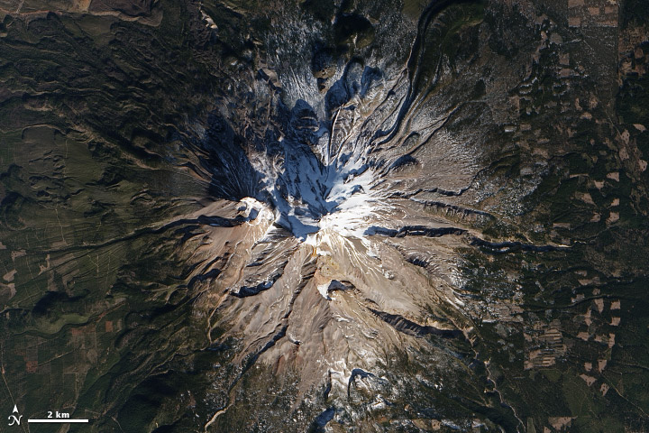 Satellite image of Mount Shasta in California, USA